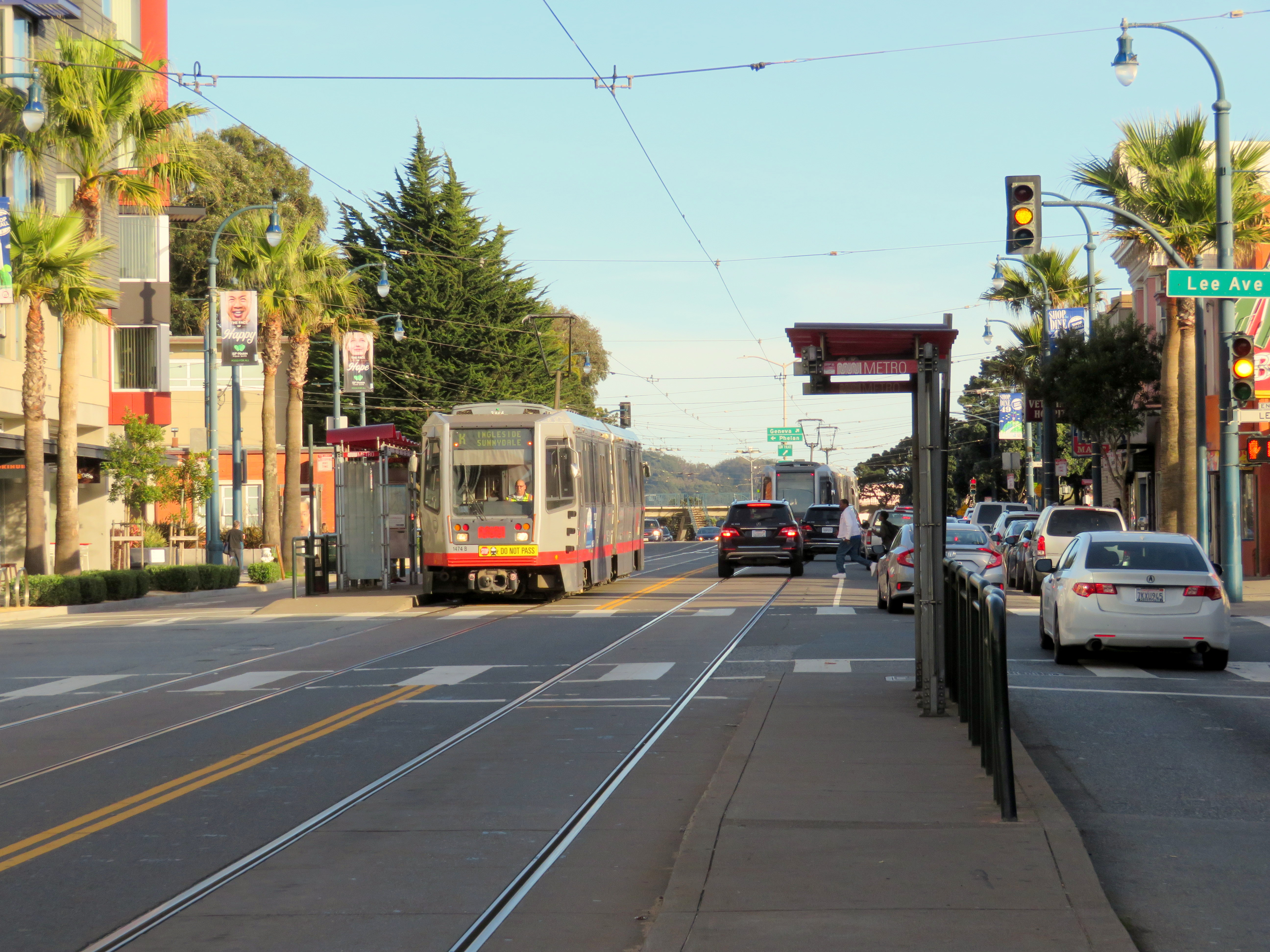 Inbound train at Ocean and Lee station in January 2018